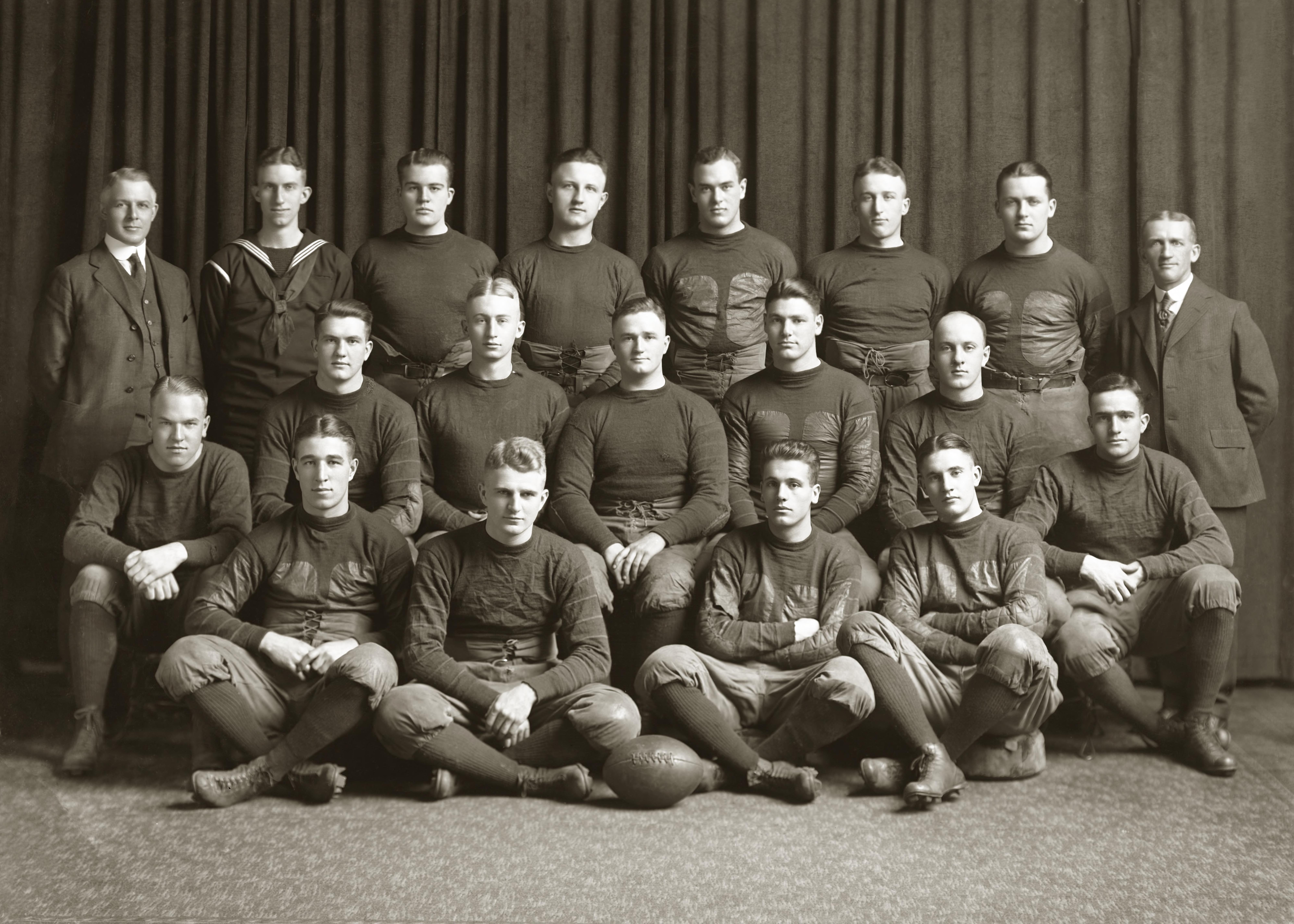 1918 University of Michigan football team: Front row (left to right) John Perrin, Ken Knode, Fred Hendershot, Arthur Karpus; Middle row Edwin Boville, William Cruse, Abe Cohn, William Fortune, Chester Morrison, Angus Goetz, Eddie Usher; Back row Dr. George May, Frank Steketee, Paul Freeman, Robert J. Dunne, Frank Czysz, Theo Adams, Donald Springer, Philip Bartelme